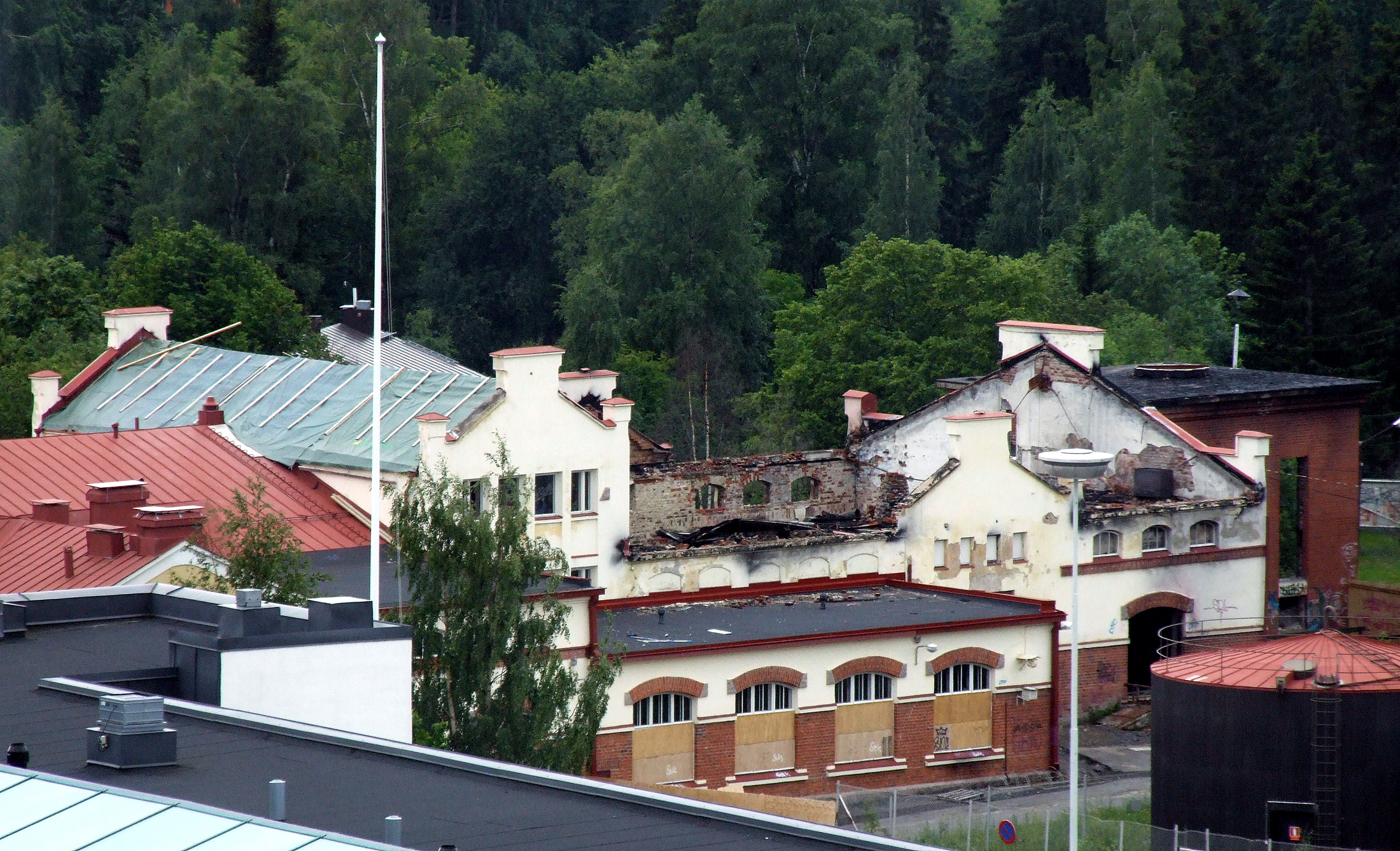 Myllytulli power plant buildings were destroyed in a fire in summer 2006. The oldest parts were built in 1903 and were designed by architect Viktor J. Sucksdorff.